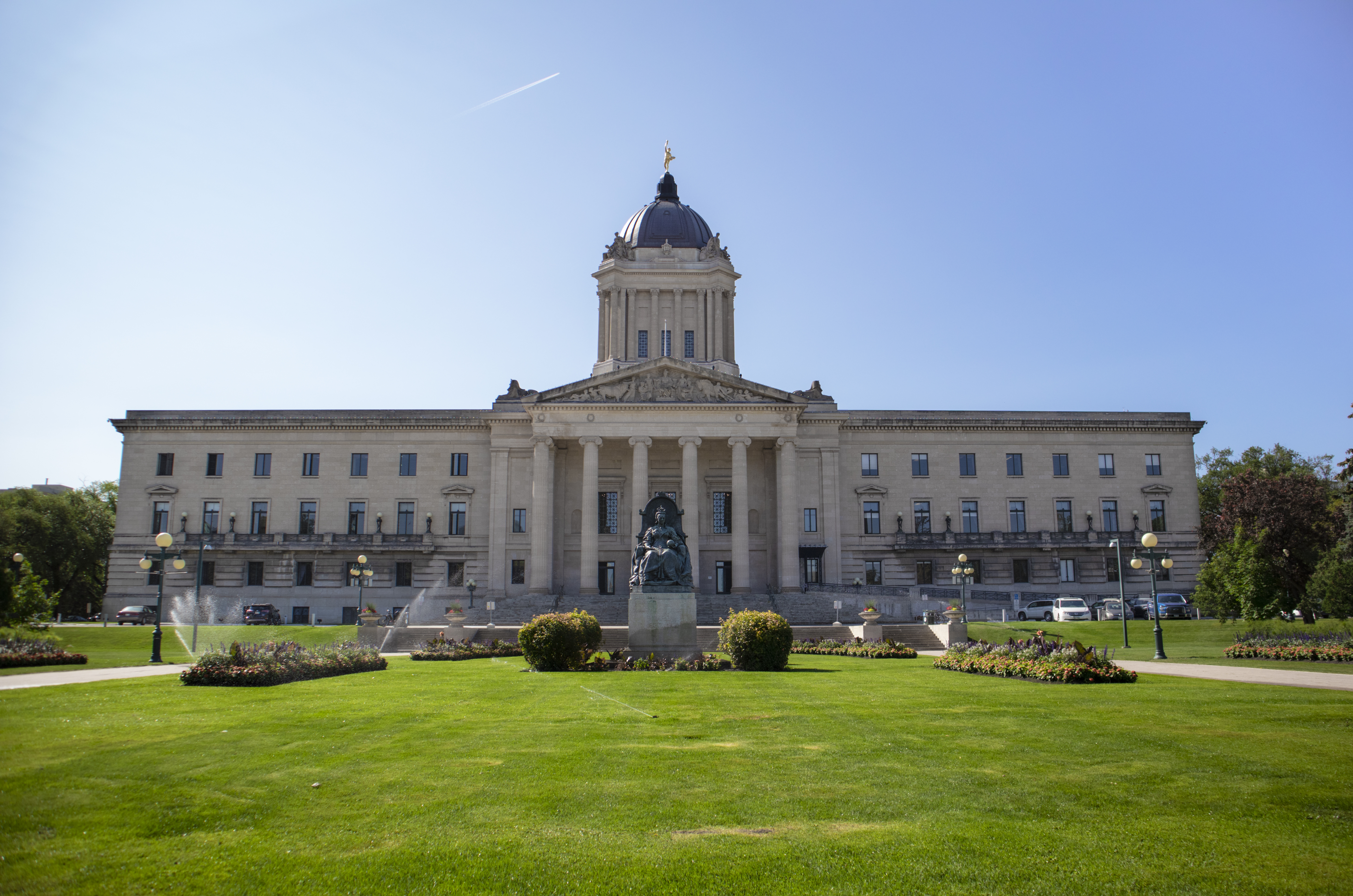 Manitoba Legislative building